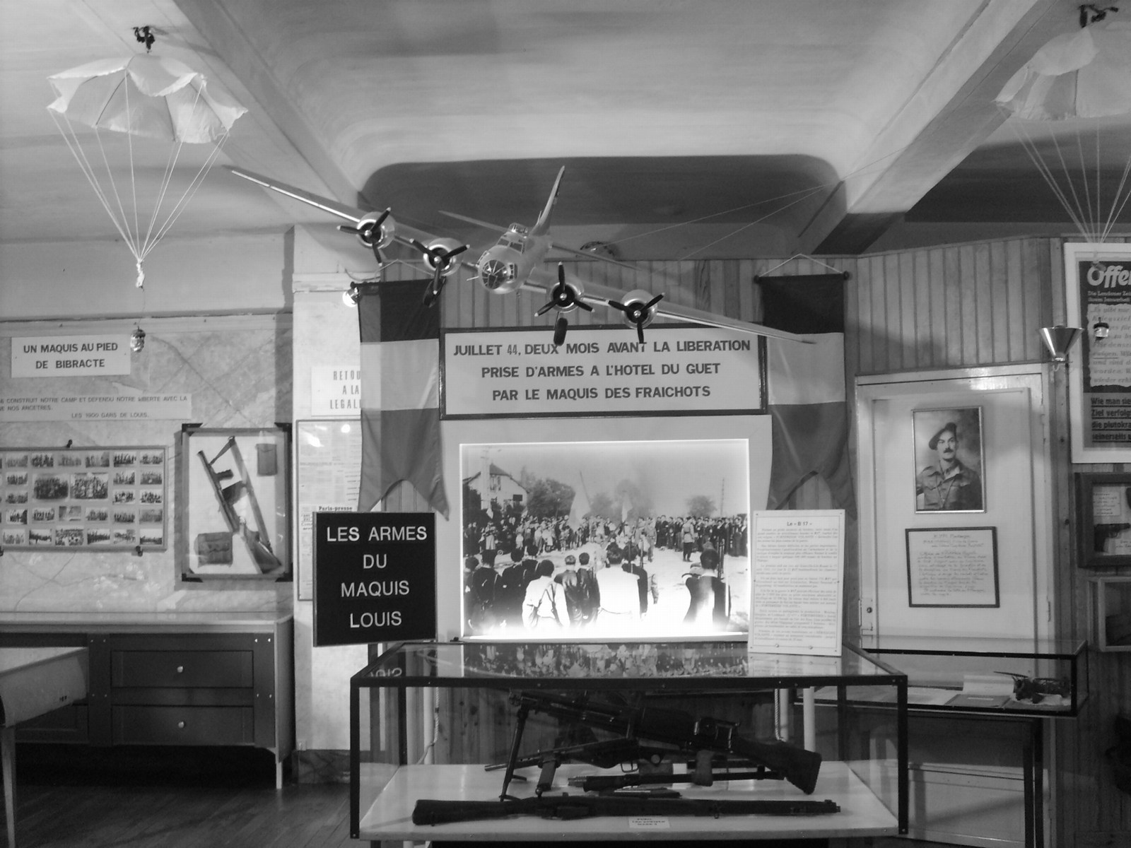 Musée de la Résistance